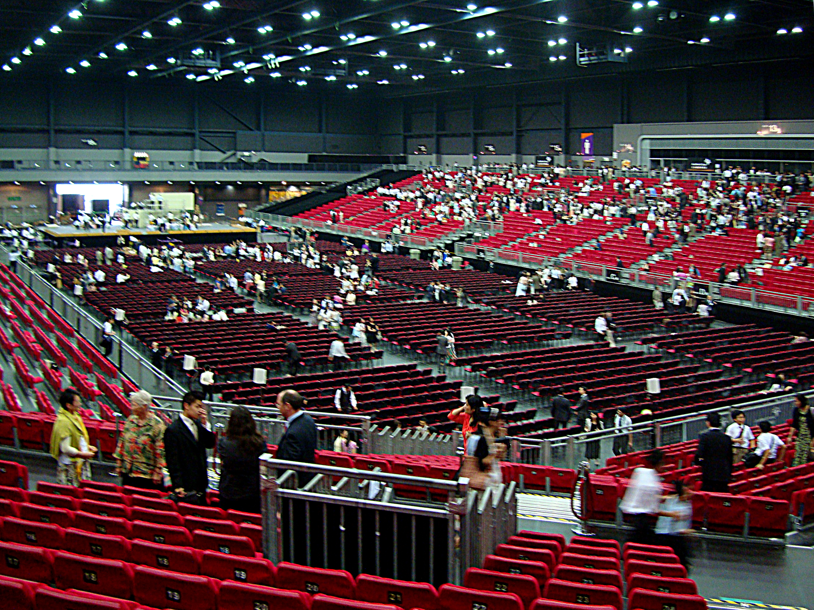 indoor seated entertainment arena of AisaWorld-Expo in Hong Kong